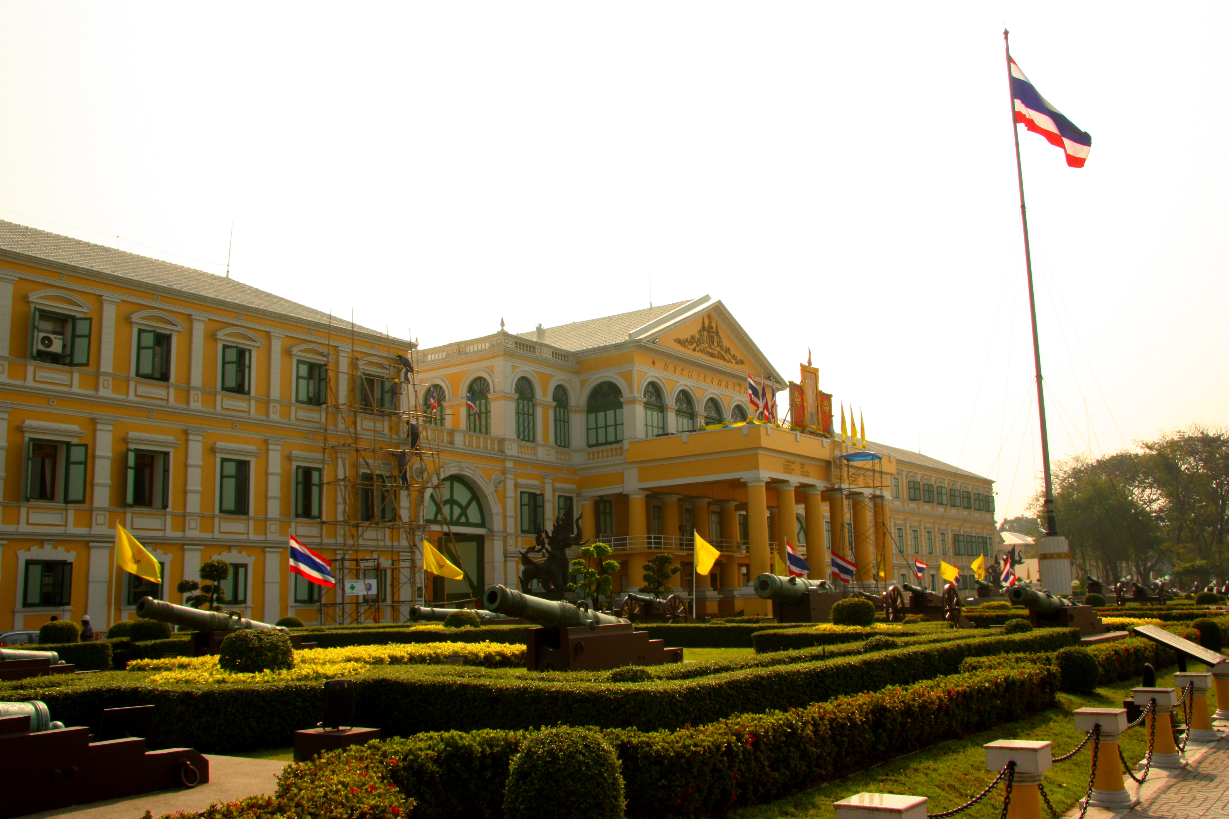 Ministry of Defence of Thailand form the front